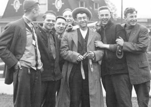 The University of Washington's 1914 Campus Day showing students with Professor Trevor Kincaid. Campus Day was an annual event from 1904 to 1934. Students and faculty worked together to clear land and improve the campus, with a break for a communal meal . Handwritten on verso: 1914. Campus Day. No collar or tie Prof Kincaid! Myron Clinton next to Kincaid's R .